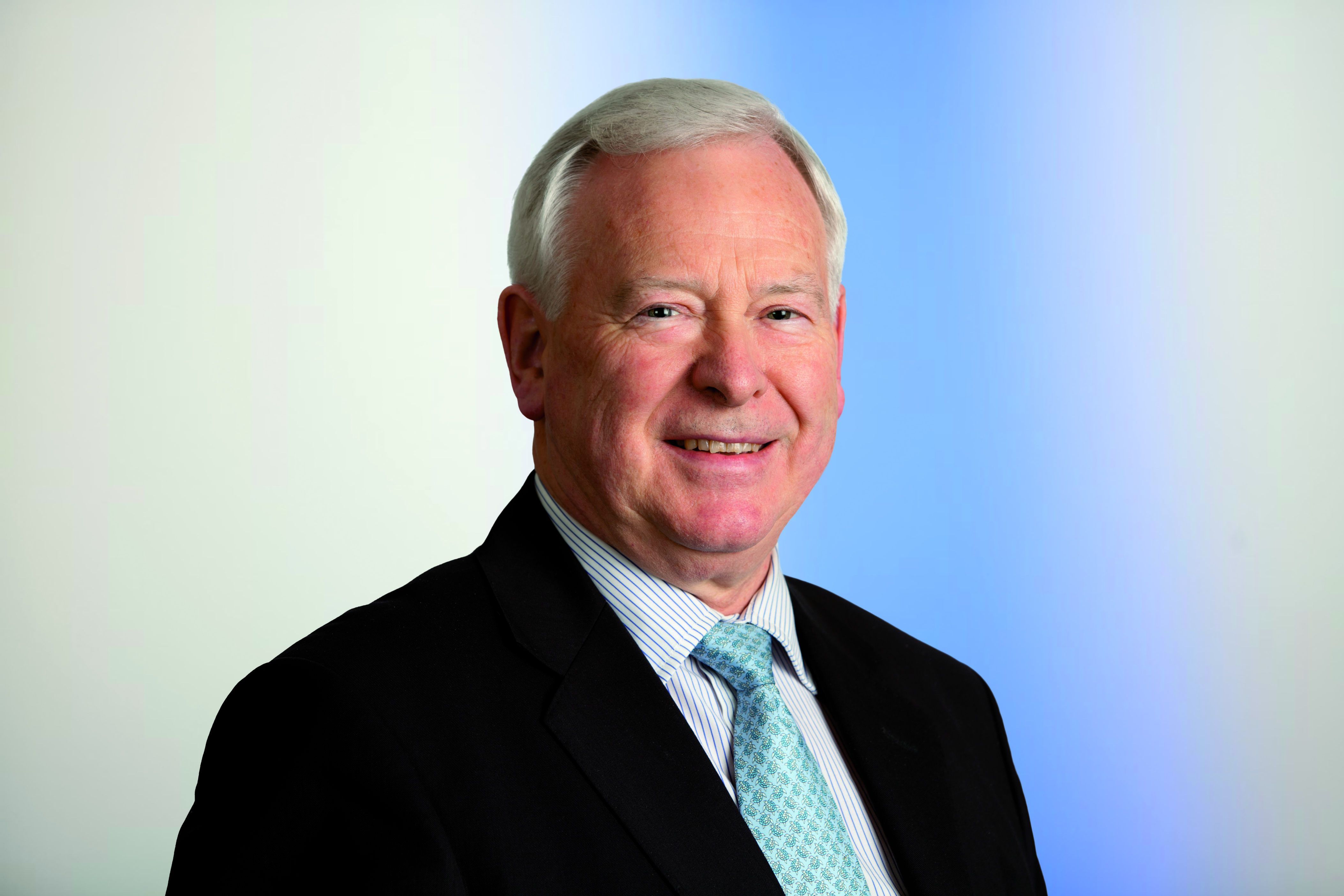 Sir John Parker, Chairman National Grid